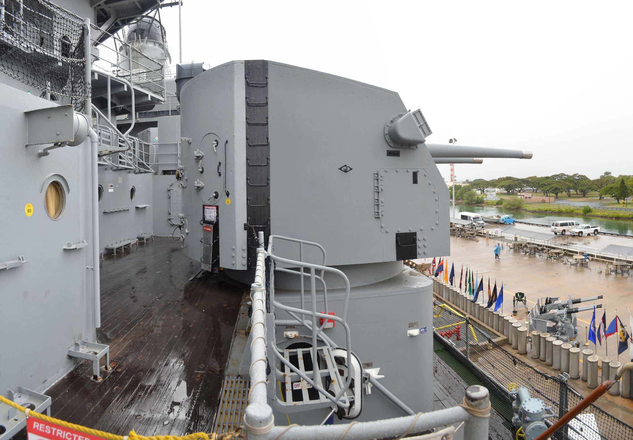 Photograph was taken while touring the USS Missouri.